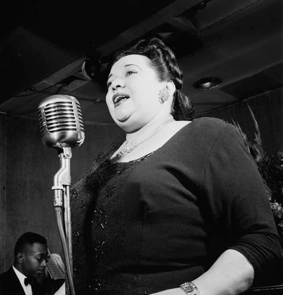 Portrait of Mildred Bailey, Carnegie Hall(?), New York, N.Y.